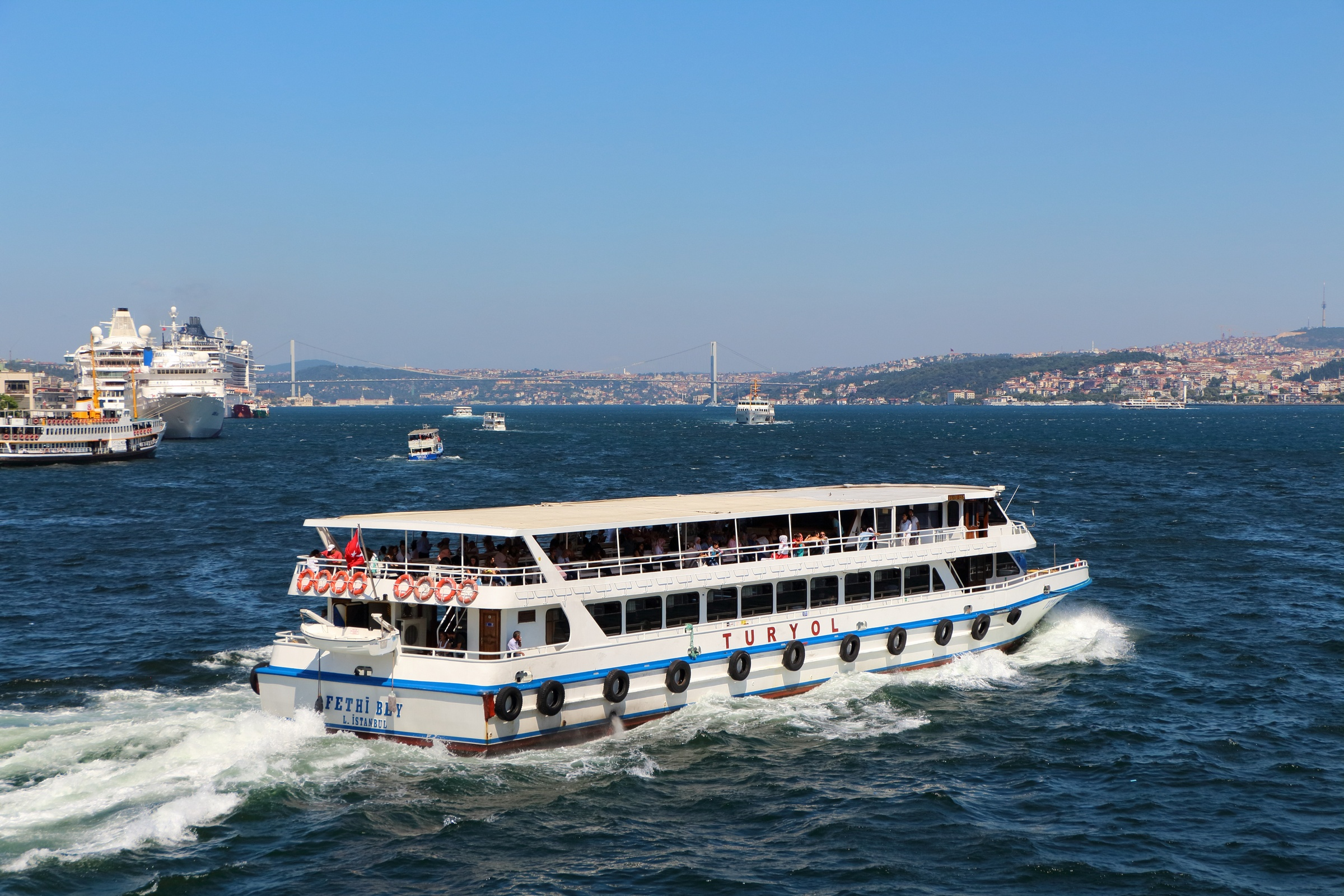 Ferry Fethi Bey in Istanbul, Turkey